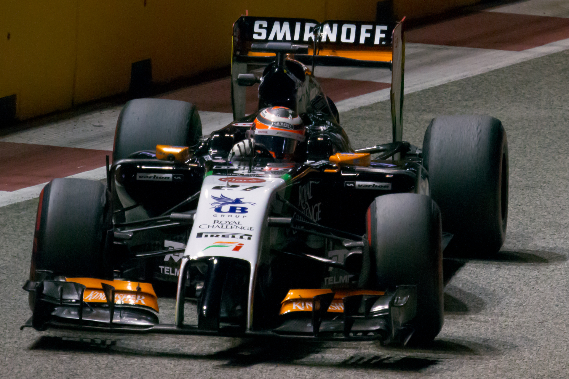 Formula One 2014 Rd.14 Singapore GP: Nico Hülkenberg (Force India)